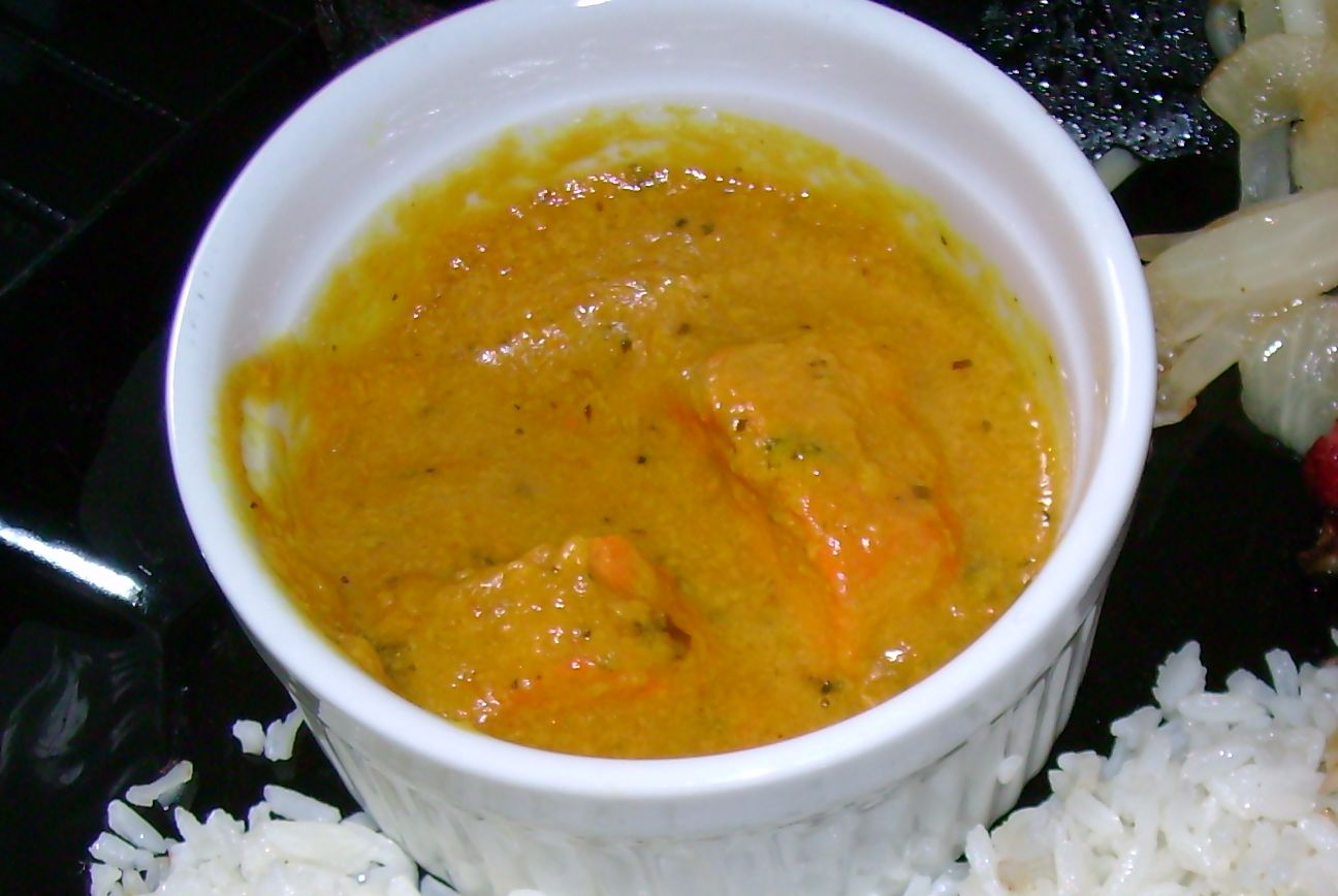 Chicken Tikka Masala - Passage to India, Berkley, Michigan, USA